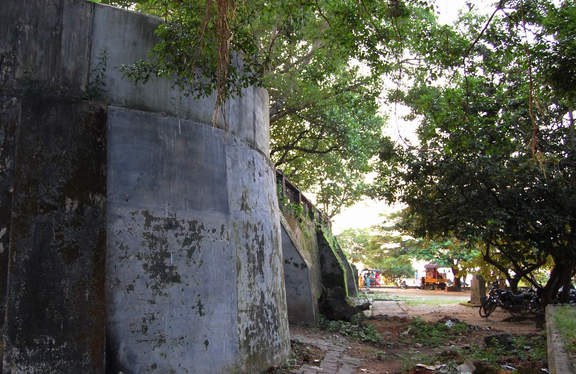 Fort Kochi, relics renovated